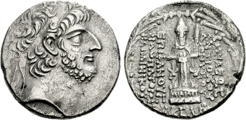 SELEUKID KINGS of SYRIA. Antiochos XII Dionysos. 87/6-84/3 BC. AR Tetradrachm (15.69 g, 12h). Damaskos mint. Dated SE 230 (83/2 BC). Diademed head right / Cult statue of Hadad standing facing on double basis, holding barley stalk, flanked by two bull foreparts; in exergue, monograms flanking date; all in laurel wreath. SC 2472A (this coin referenced and illustrated). Good VF, rough surfaces. Unique. This coin is the latest dated issue of Antiochos XII known, as well as the only silver coin known to bear his epithet Dionysos, which otherwise occurs only on Antiochos’ bronze issues.